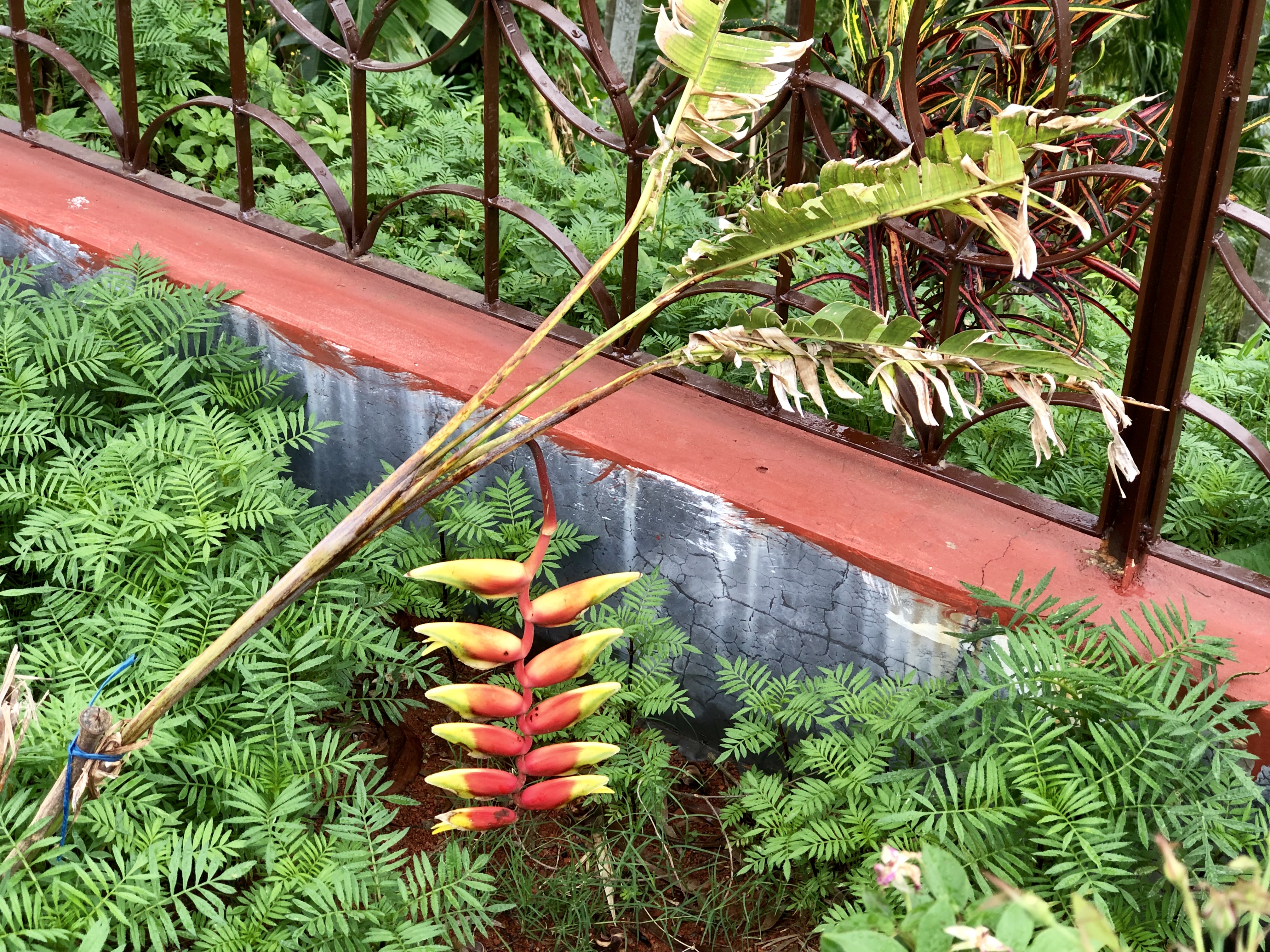 Indigenous flower